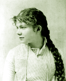 Amy Beach